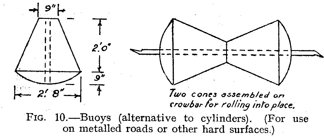 Buoy anti-tank obstacle